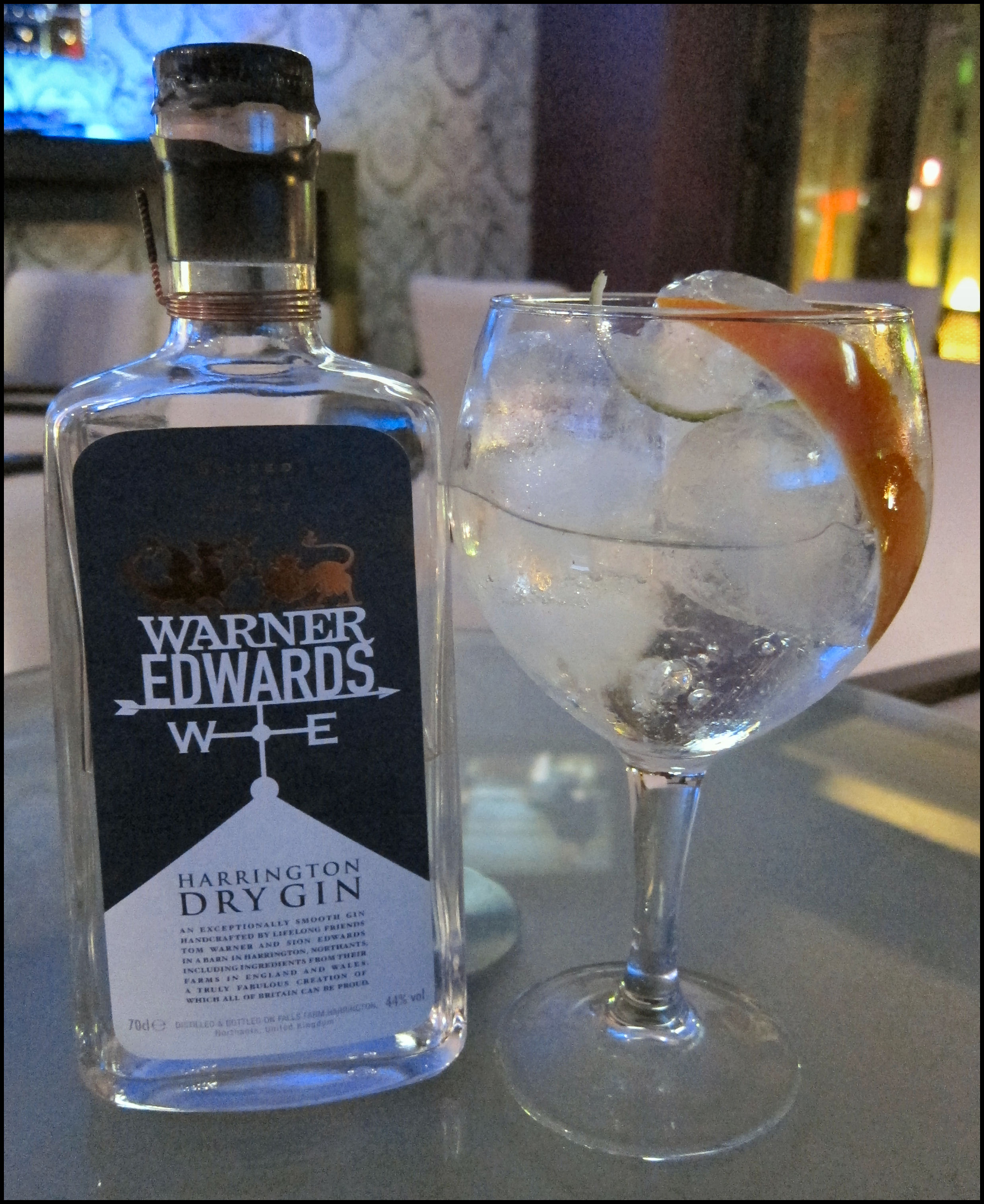 A Gin Tonica with Fruit Garnish made with Warner Edwards Gin at Cappuccino Bar in Salou, Spain- Jun 2013